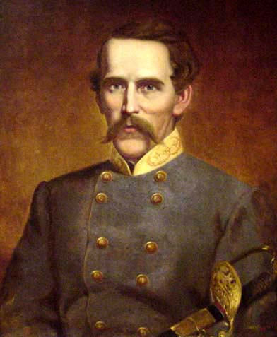 Portrait of Robert E. Rodes. Displayed at the Preston Library, Virginia Military Institute Archives